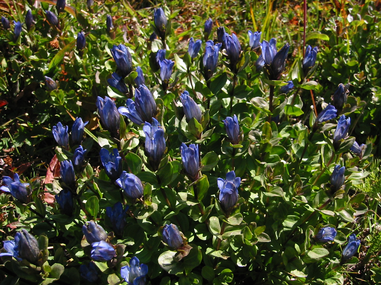 Mountain bog gentian